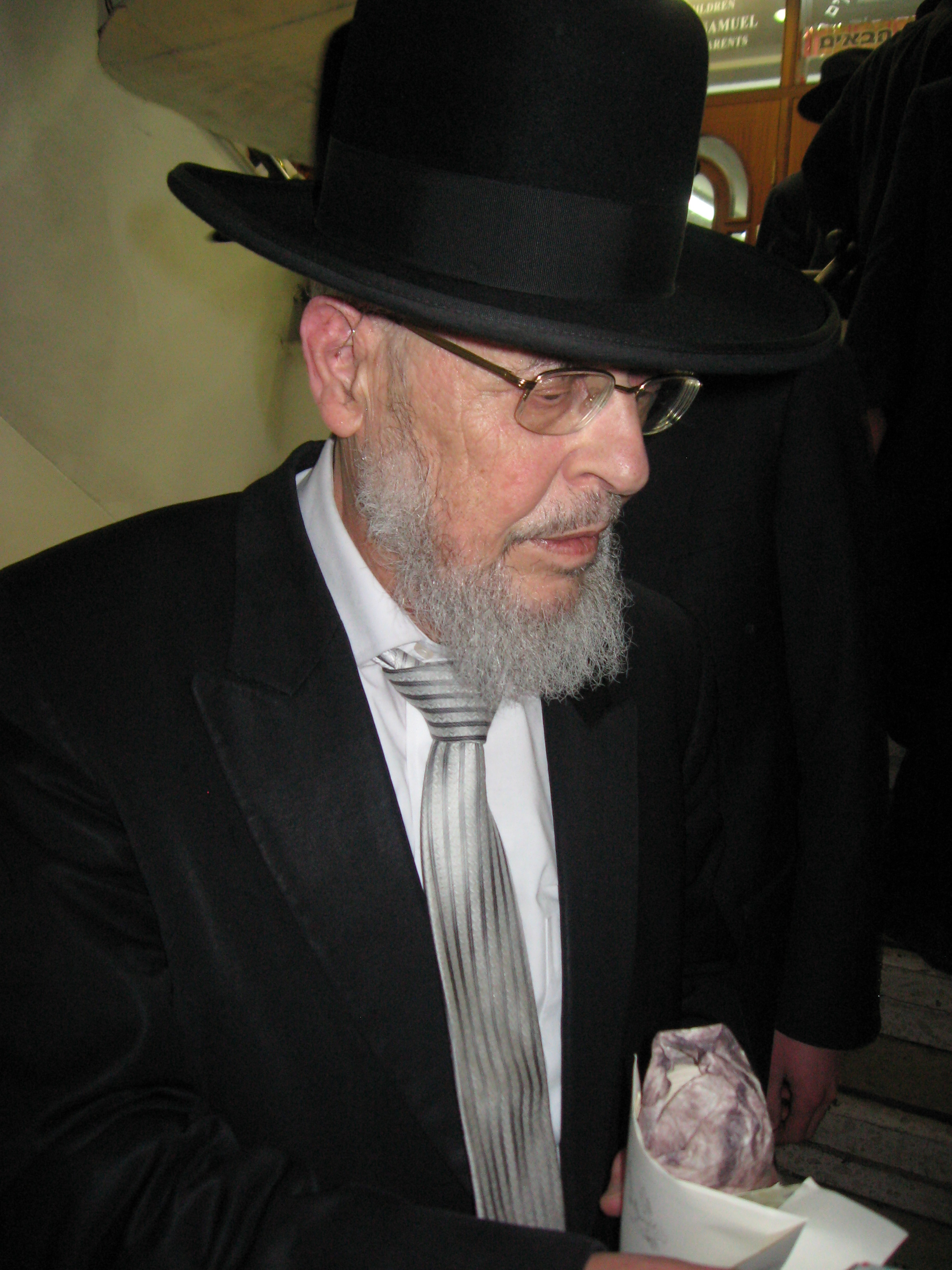 Rabbi Yitzchok Ezrachi from Purim 2011.